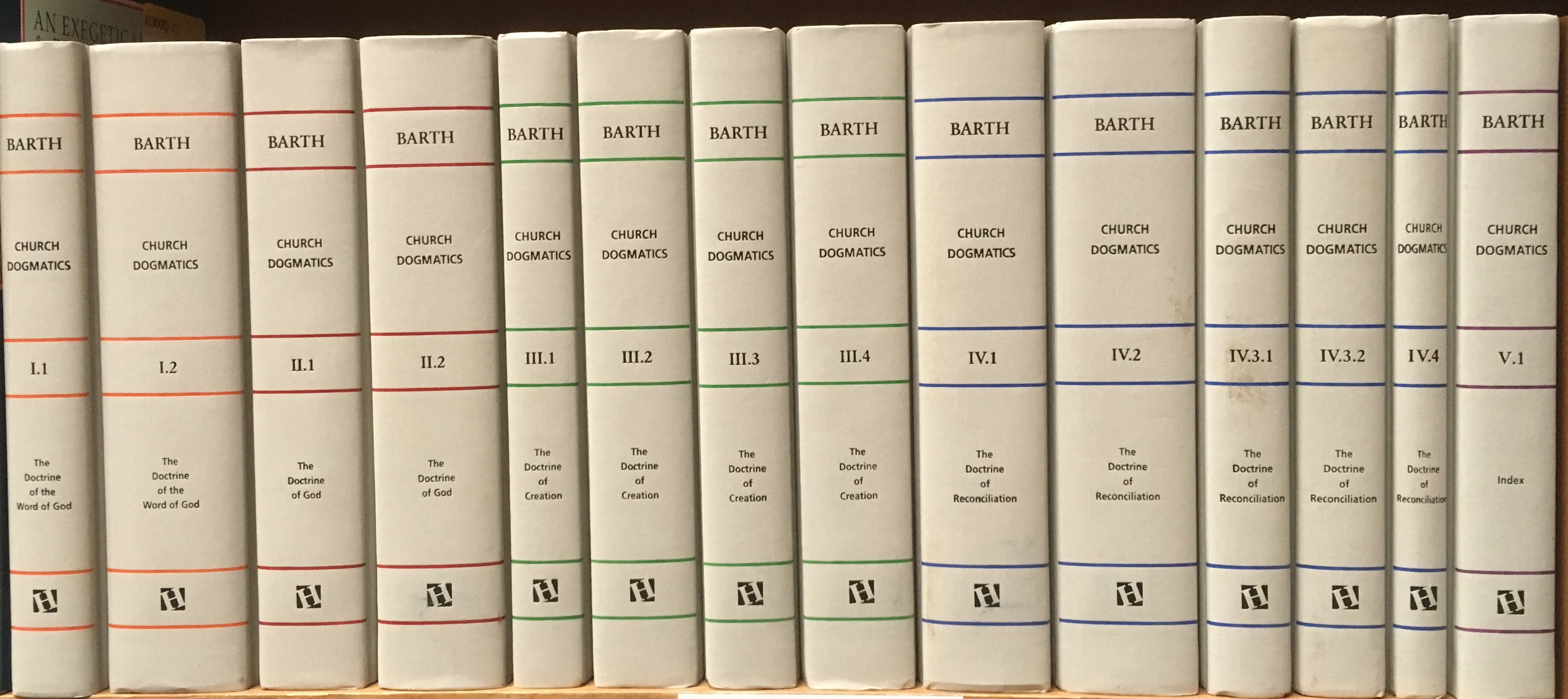 Spines of a set of Barth's Church Dogmatics